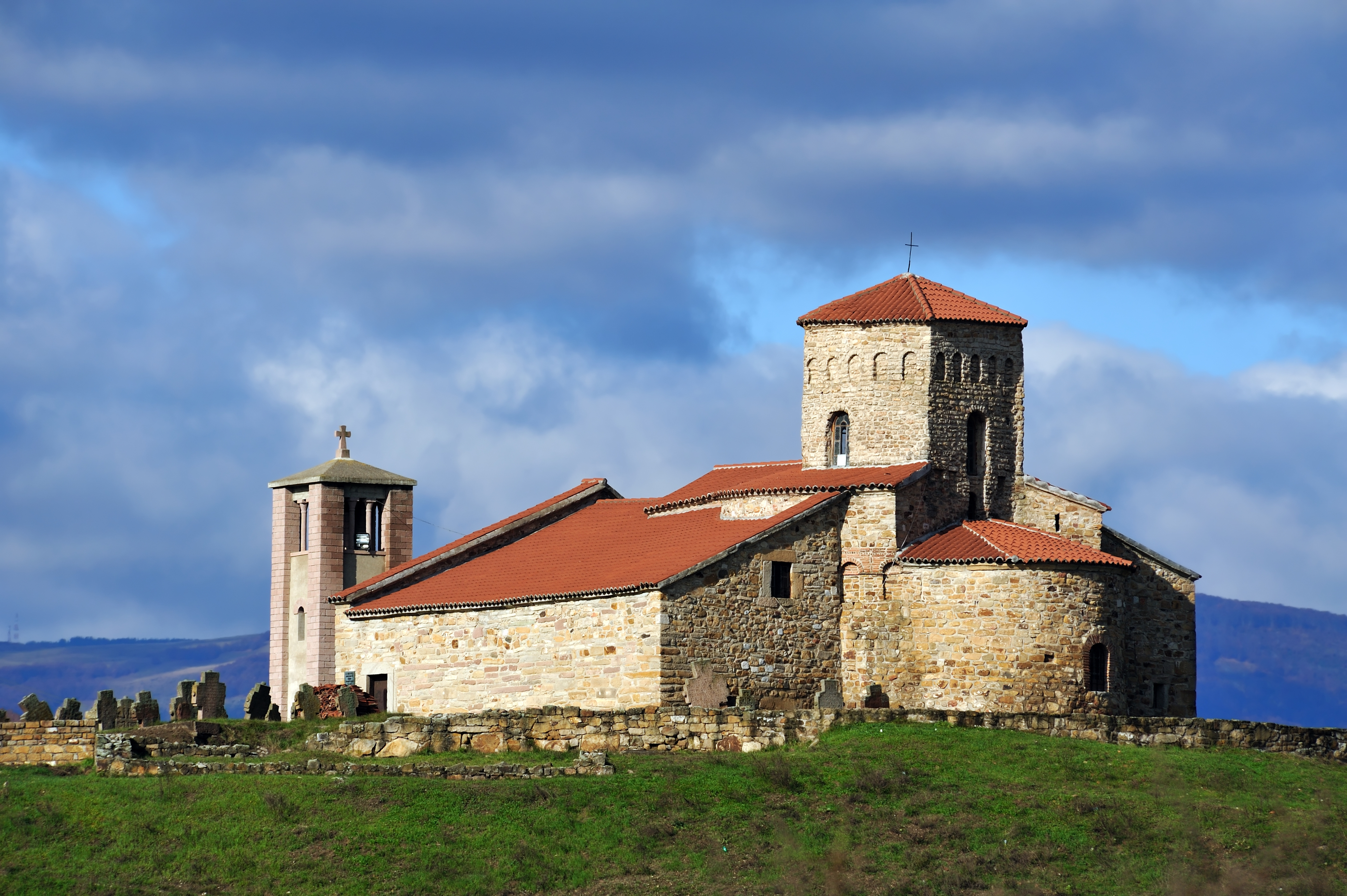 The Church of St. Apostles Peter and Paul (Serbian: Црква светих апостола Петра и Павла / Crkva svetih apostola Petra i Pavla), also known as Church of Peter (Serbian: Петрова црква / Petrova crkva) is a Serbian Orthodox church, the oldest intact church in Serbia and one of the oldest ones in the region, situated on a hill of Ras, the medieval capital of the Serbian Grand Principality (Rascia), near Novi Pazar, Serbia.